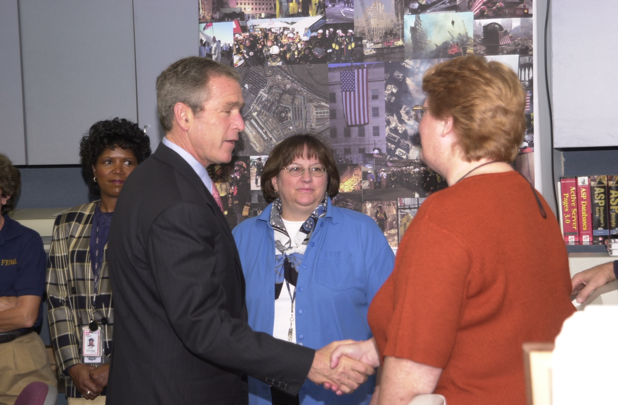 Washington, DC, October 1, 2001 -- President Bush shakes hands with FEMA staff in the Emergency Support Team Operations Center. The President came to thank FEMA staff for their work in supporting operations at the crash sites in New York City and at the Pentagon. Photo by Doug Hill/ FEMA News Photo